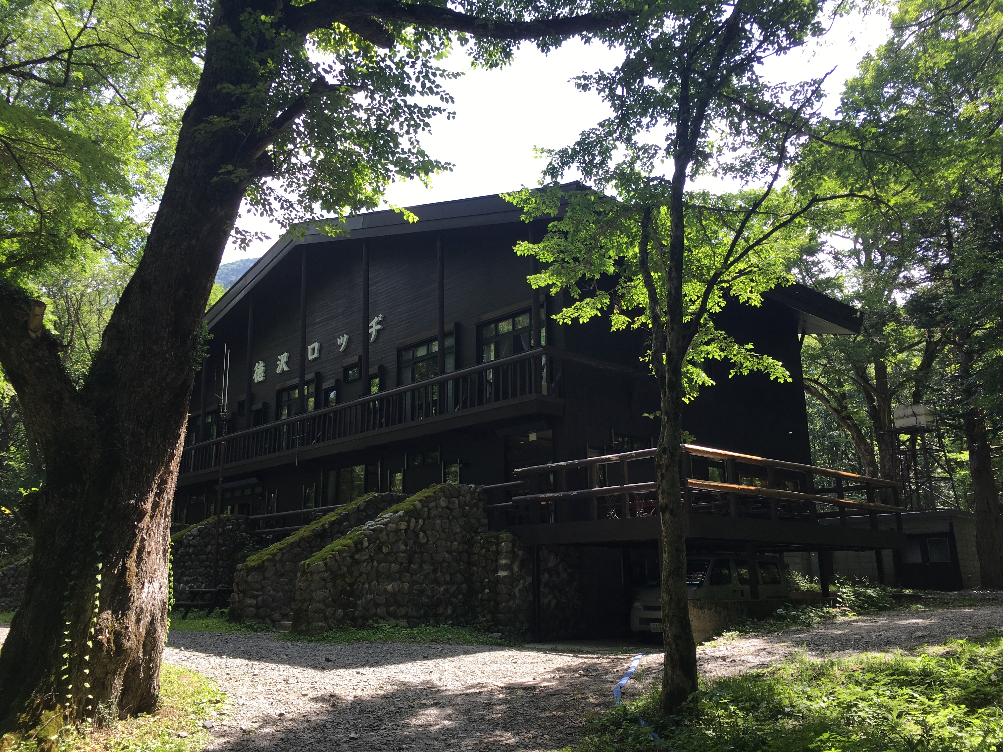 Tokusawa Lodge, half way between Kamikōchi and Yokoo in the Hida Mountains of Nagano prefecture, Japan.